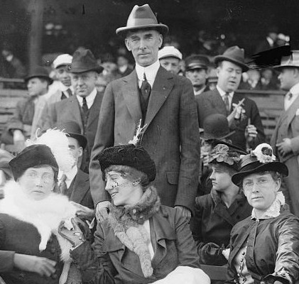 Connie Mack, his wife, a Miss McGillicuddy and Mrs G. Colby, at ball game, 1915